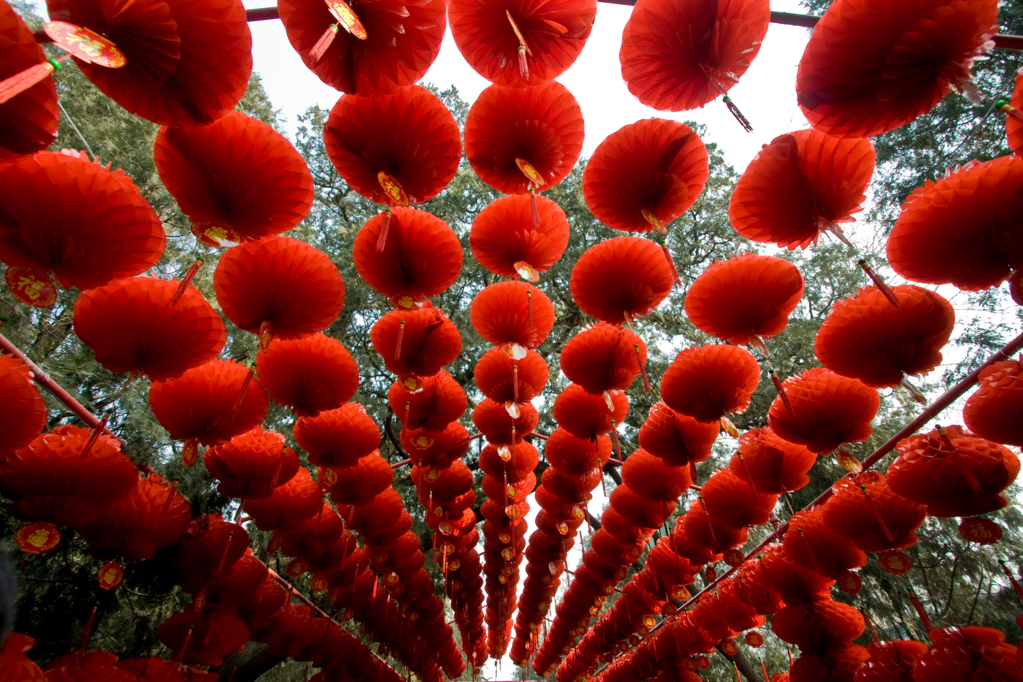 Lanterns at the festival during the Chinese New Year at the Temple of Earth in Beijing, China